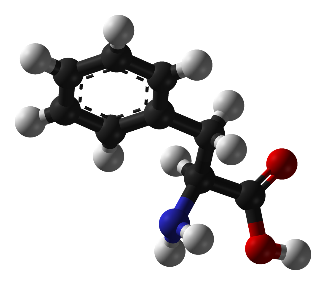 Phenyl-alanine aminoacid 3D chemical structure